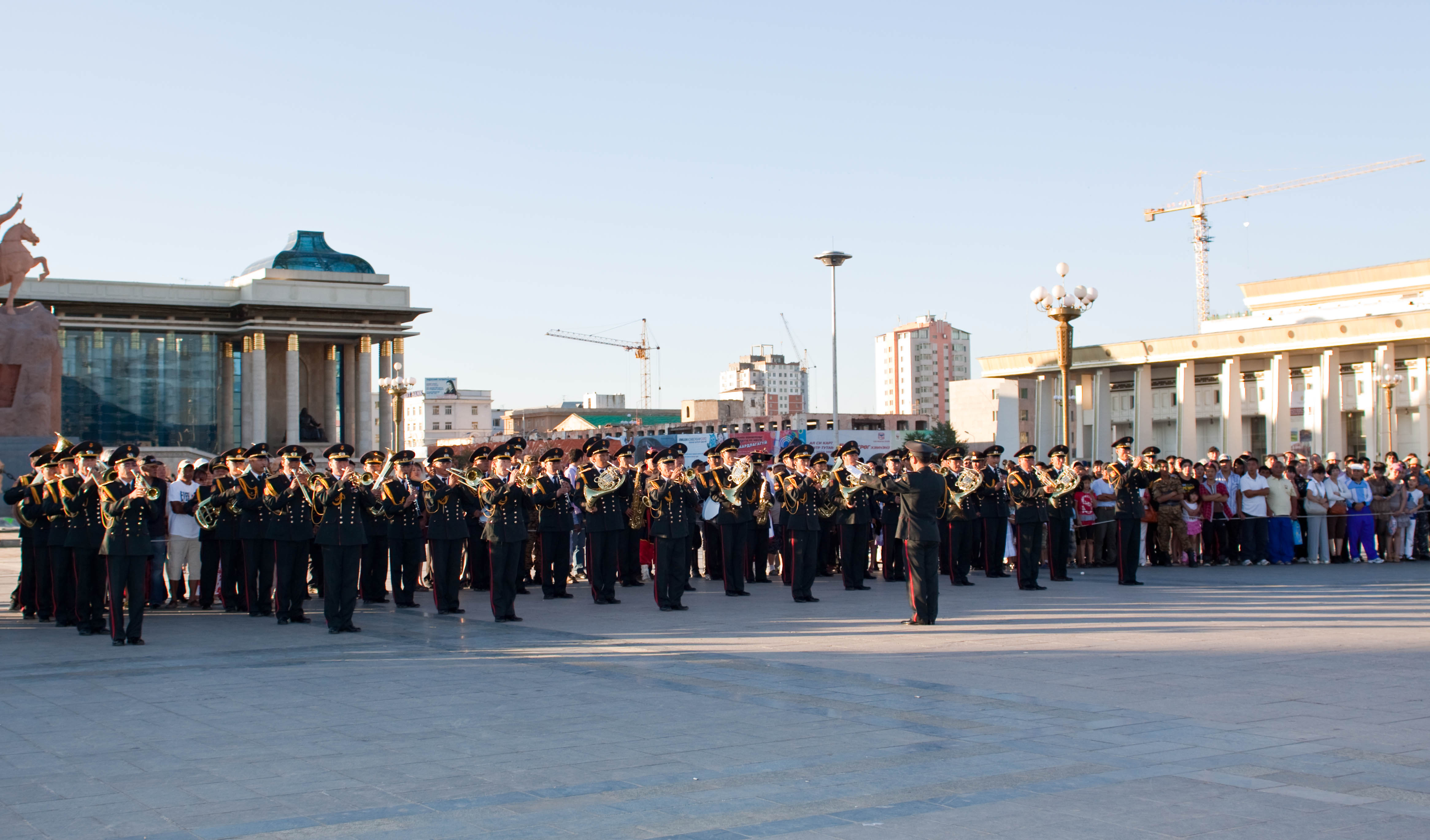 The Central Orchestra of the General Staff of the Mongolian Armed Forces (MAF Band), conducted by MAF Capt. E. Gansukh, performs traditional music during their part of a joint concert with the U.S. Marine Corps Forces, Pacific Band in Sukhbaatar Square, Ulaanbaatar, Mongolia, June 30. This is the fourth year the MarForPac Band traveled to Mongolia to participate in a subject matter expert exchange with their Mongolian counterparts.